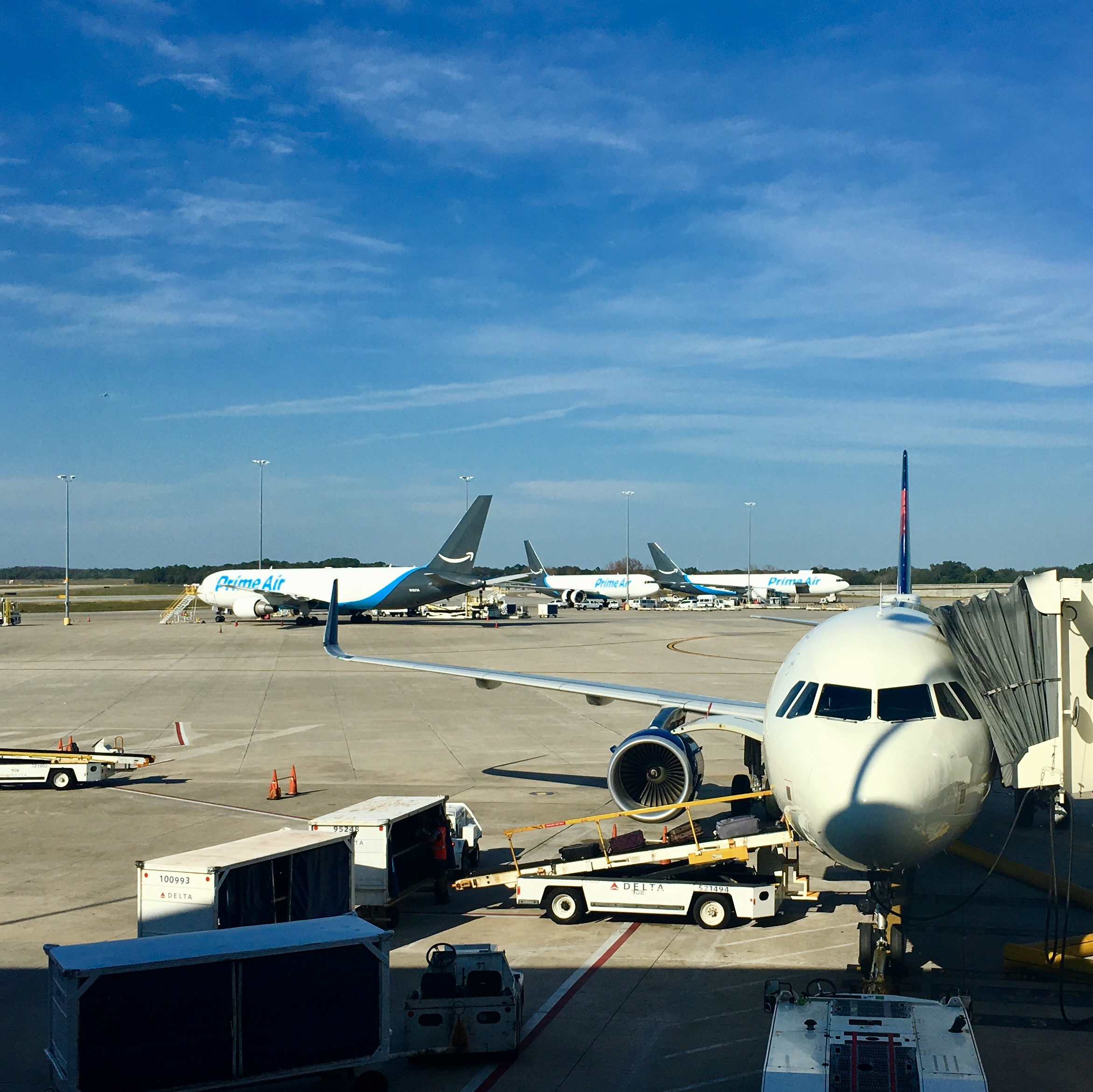 Three Amazon Air 767s at Tampa International Airport